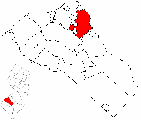 Map of Gloucester County highlighting Deptford Township